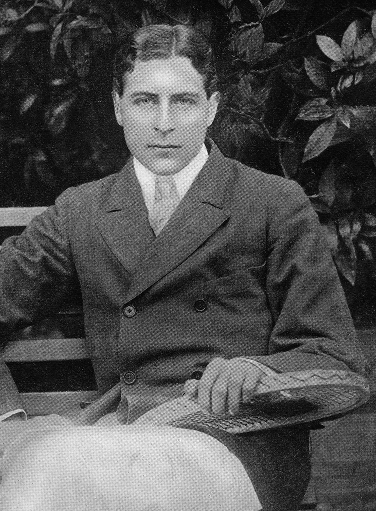 British tennis player Hugh Lawrence Doherty (cropped)